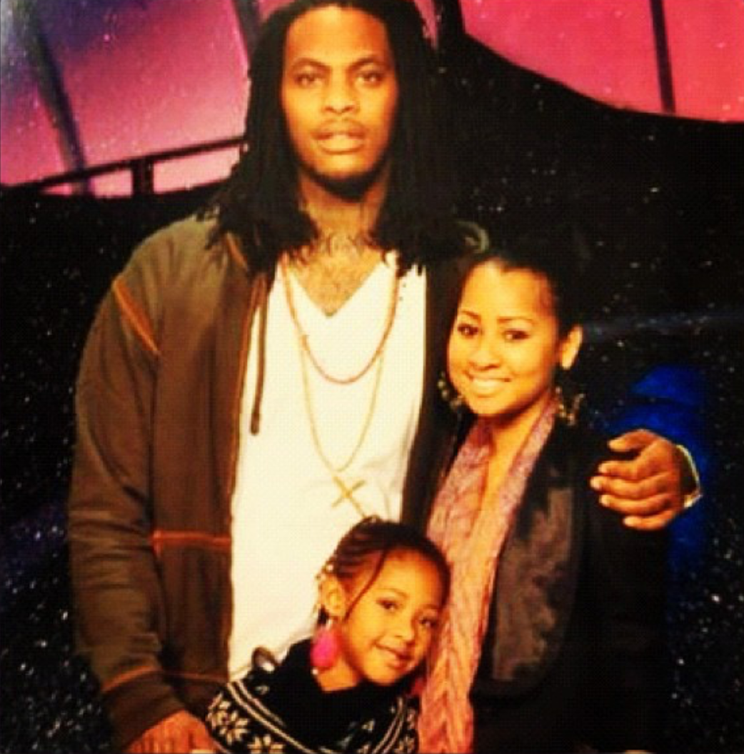 The Flocka's